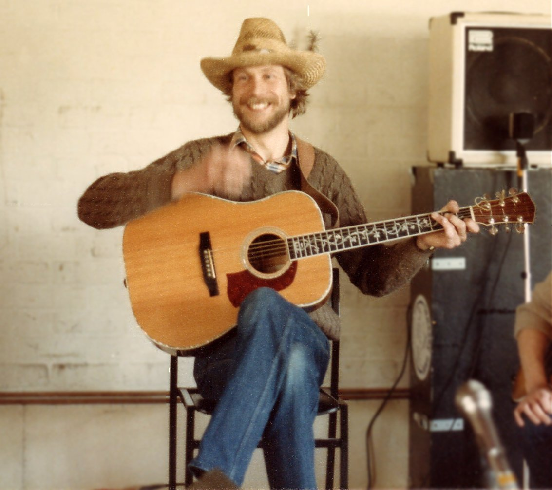 Chris Moreton (U.K. bluegrass guitarist) on stage at Edale Festival, 1984 (Tony Rees photograph)